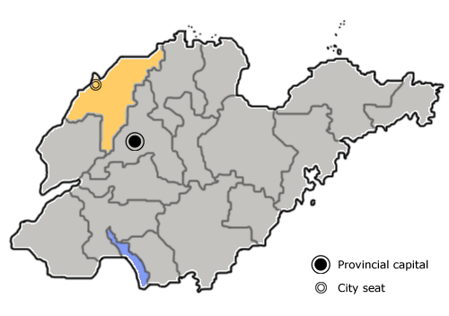 The prefecture-level city of Dezhou is highlighted on this map of Shandong province, People's Republic of China.